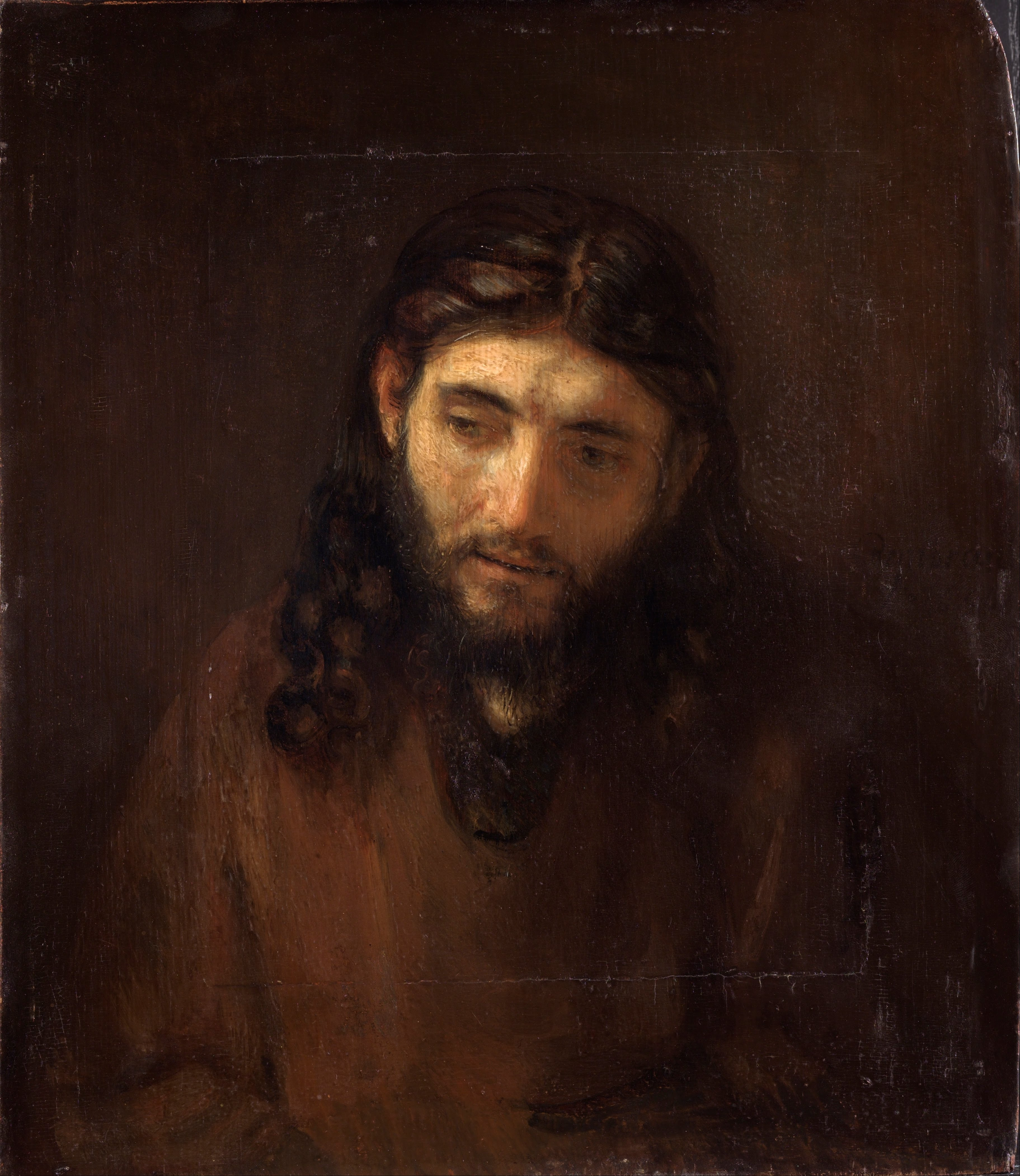 Bust of Christ in a brown habit, his head slightly turned left. One of a group of paintings depicting Christ in a brown habit. This panel is located in the permanent collections of the Philadelphia Museum of Art. It has been extended on all sides by laying the original oak panel into a larger oak panel.